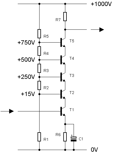 Combination of a cascode and a voltage ladder forming a high-voltage npn transistor